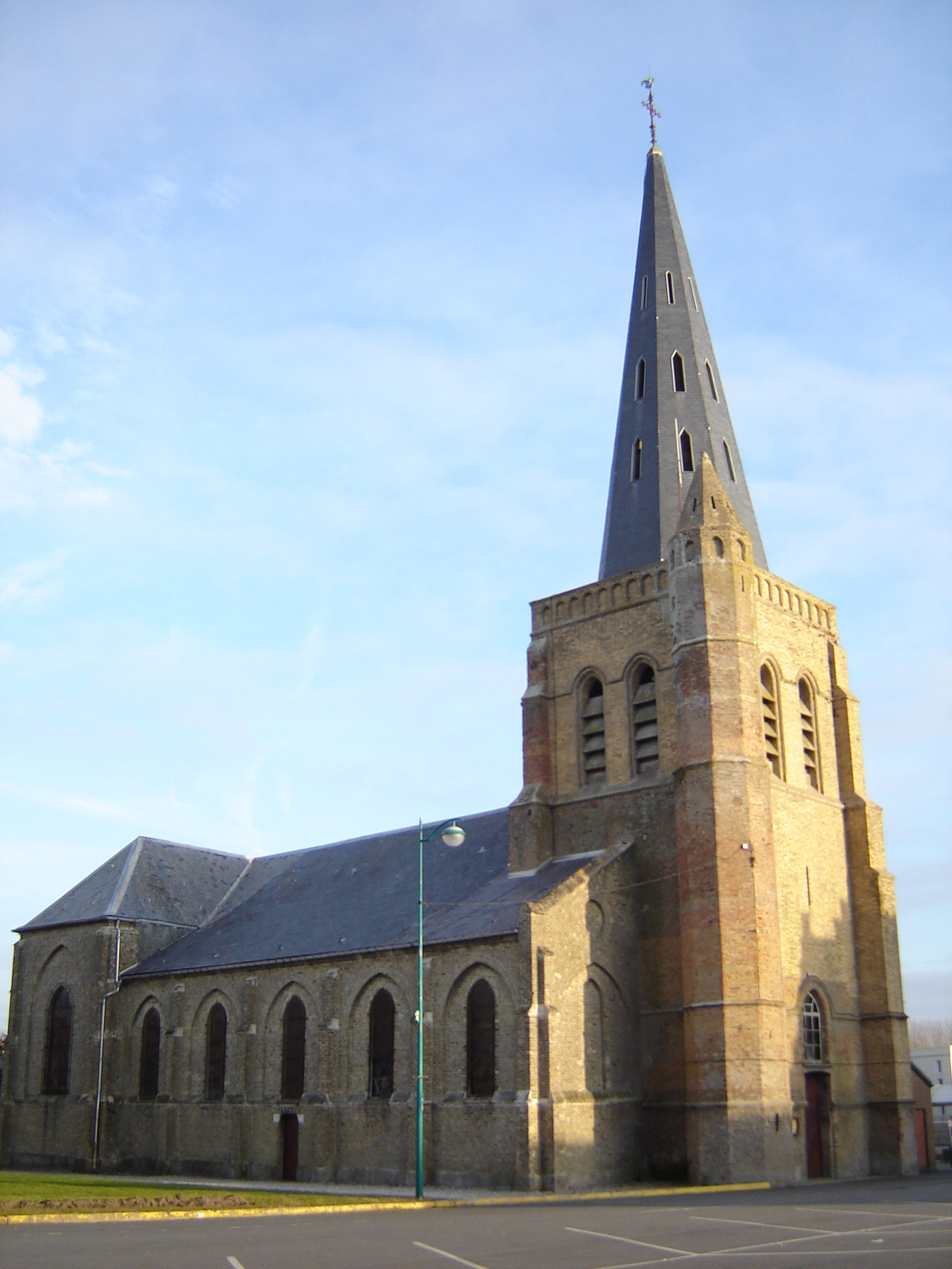 Church of Saint Medardus in Oye-Plage. Oye-Plage, Pas-de-Calais, Nord-Pas-de-Calais, France